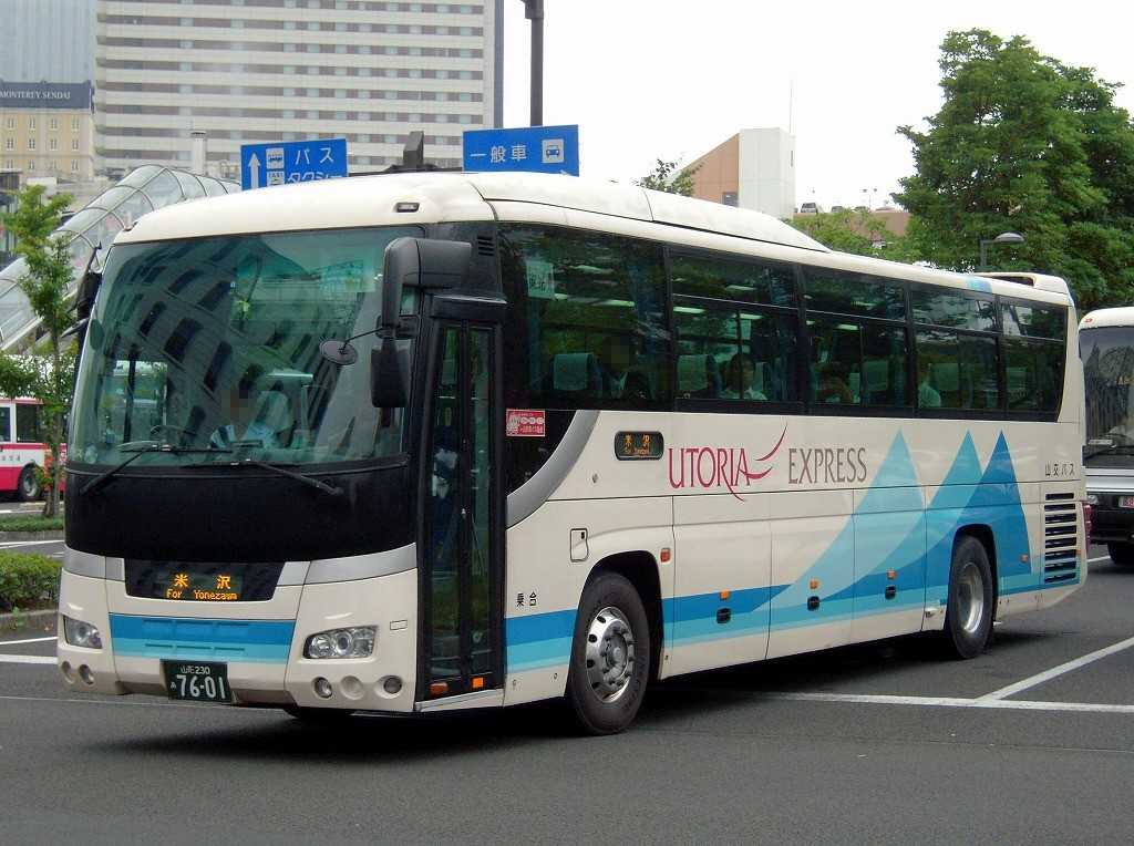 Yamako bus Isuzu Gala(ADG-RU1ESAJ) for Highwaybus "Yonezawa-Sendai"